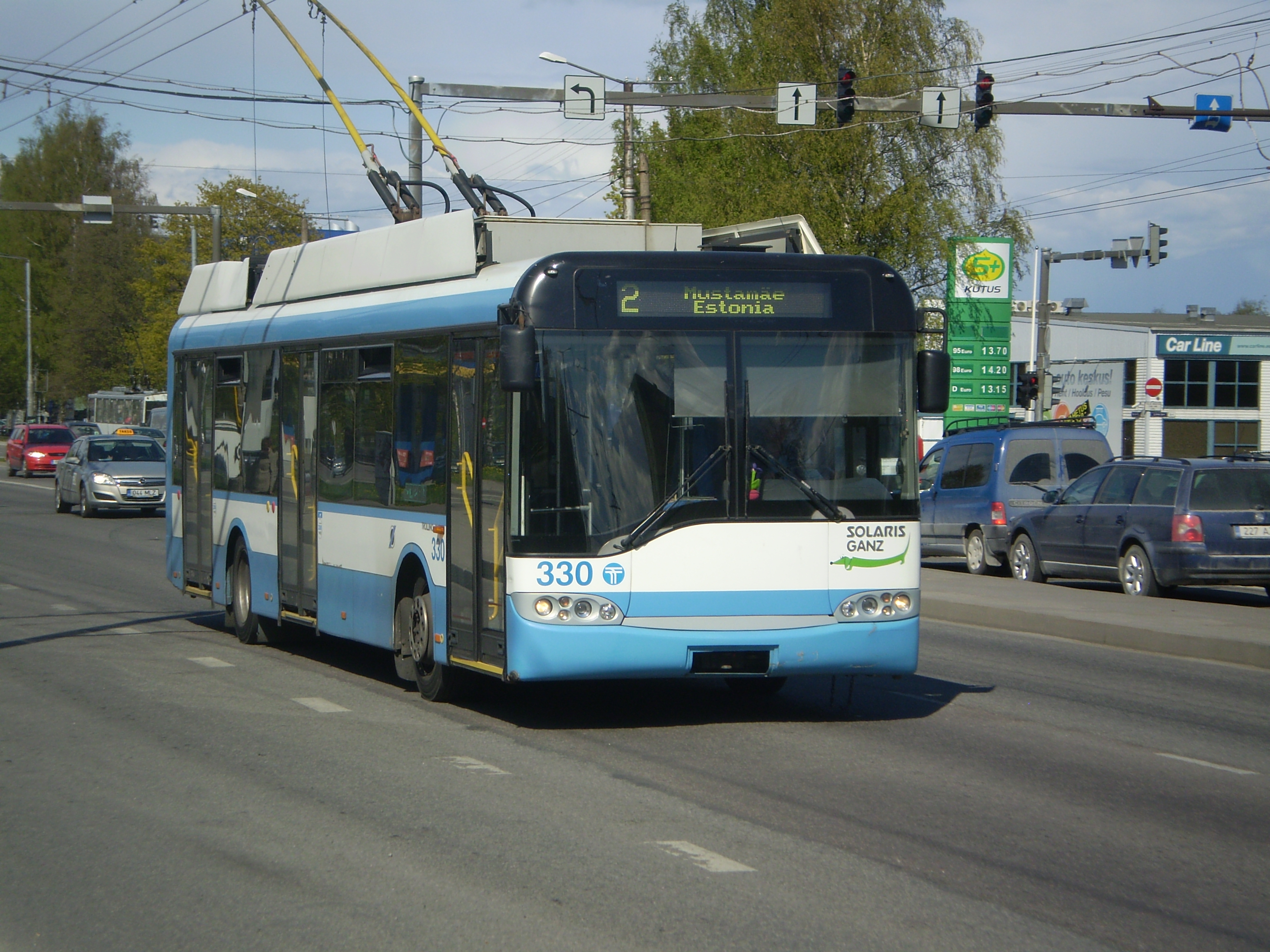 Solaris T12 No 330 in Tallinn